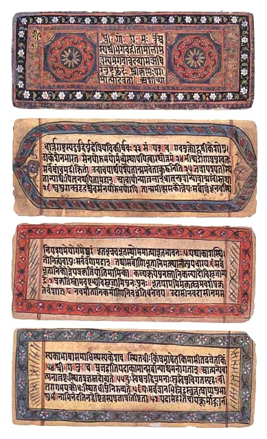 Bhagavad Gita, a 19th century manuscript. North India. original caption: "Bhagavadgîta. A cheerful decoration adorns this manuscript of the Bhagavadgîta, perhaps the most popular of all Hindu religious works. Stylized and geometrical rosettes reminiscent of pre-Muslim South Asia styles are combined with floral ornament so typical of Islamic decorative art. Nineteenth-century paper manuscript from North India. (Southern Asian Collection, Asian Division)"